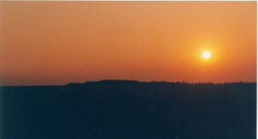 Sunset in South Limburg.